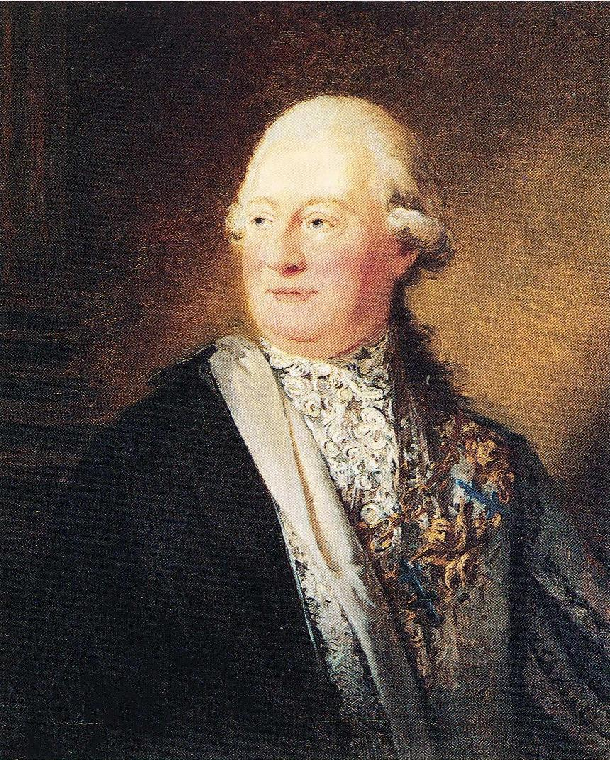 Count Carl Adam Wachtmeister (1740–1820). Original portrait made by Carl Fredrik von Breda in 1802, this copy by Kerstin Cardon in 1881 for Helsinki University.